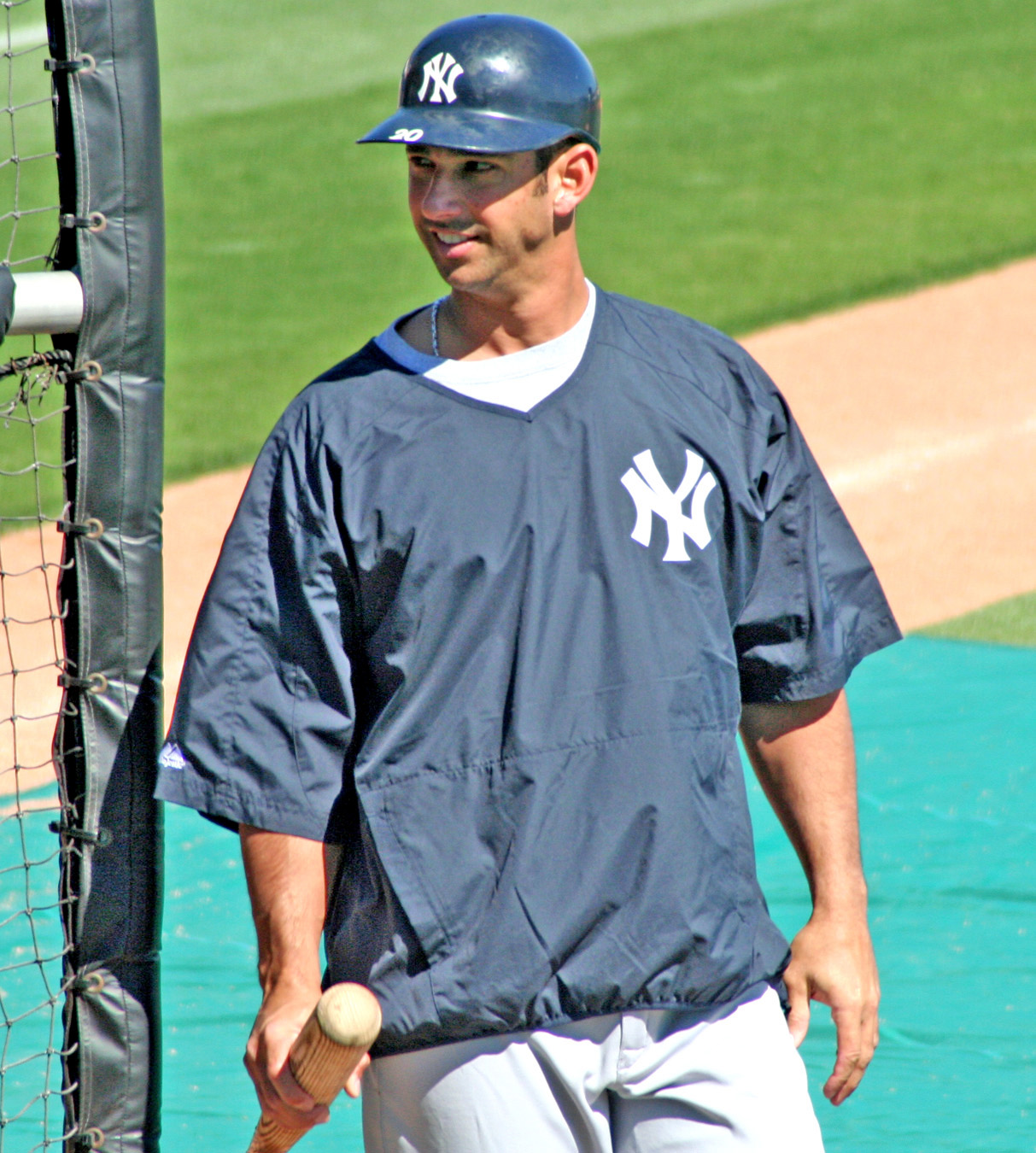 Photograph taken by Googie Man 05:48, 21 March 2007 . . Googie man . . 1213×1350 (483,658 bytes)